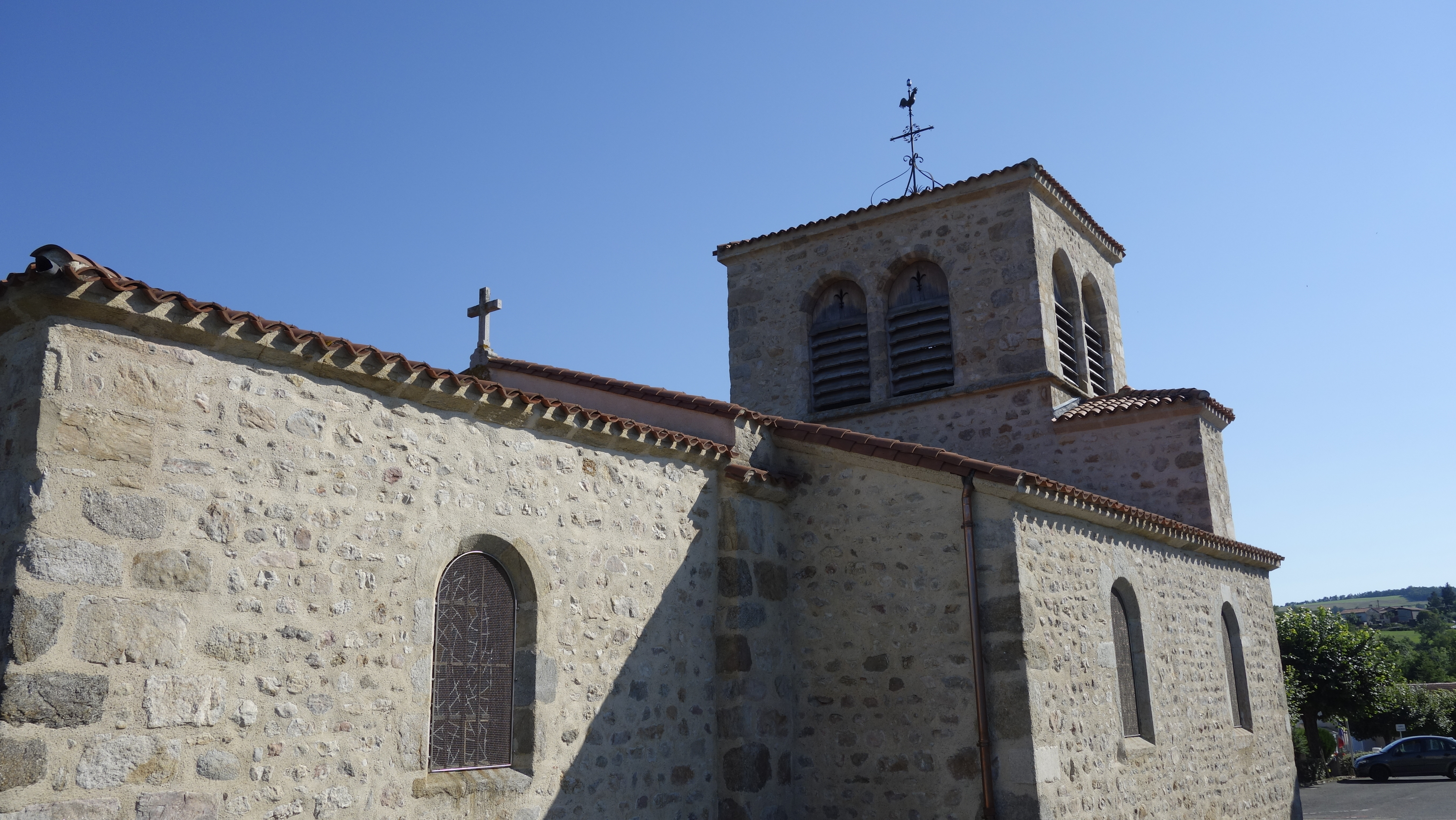 Saint Roman Church of Pralong